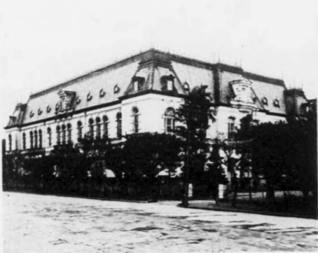 Taiwan Sōtokufu Toshokan